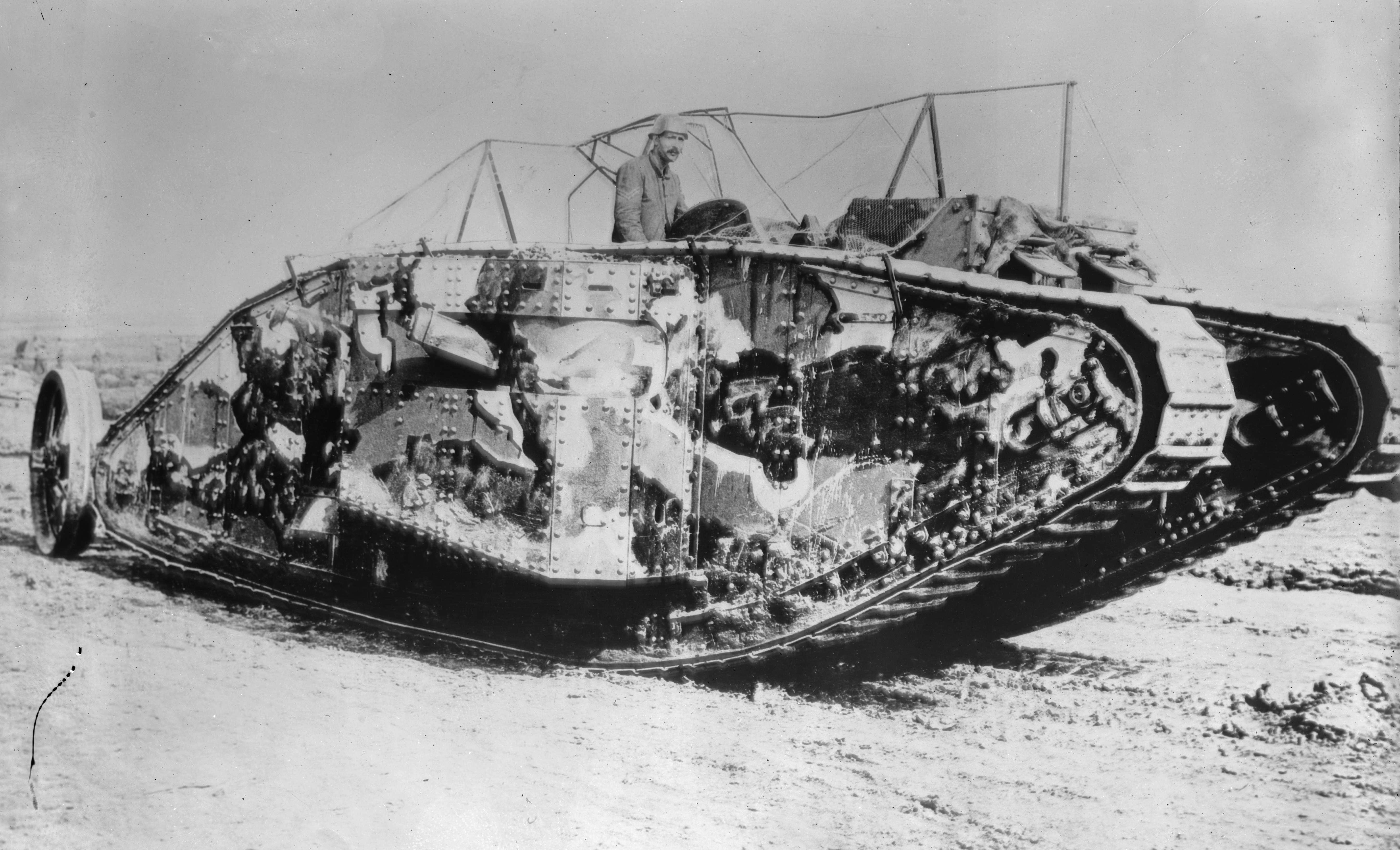 Mark I series tank and crewman at Thetford in "Solomon" camouflage